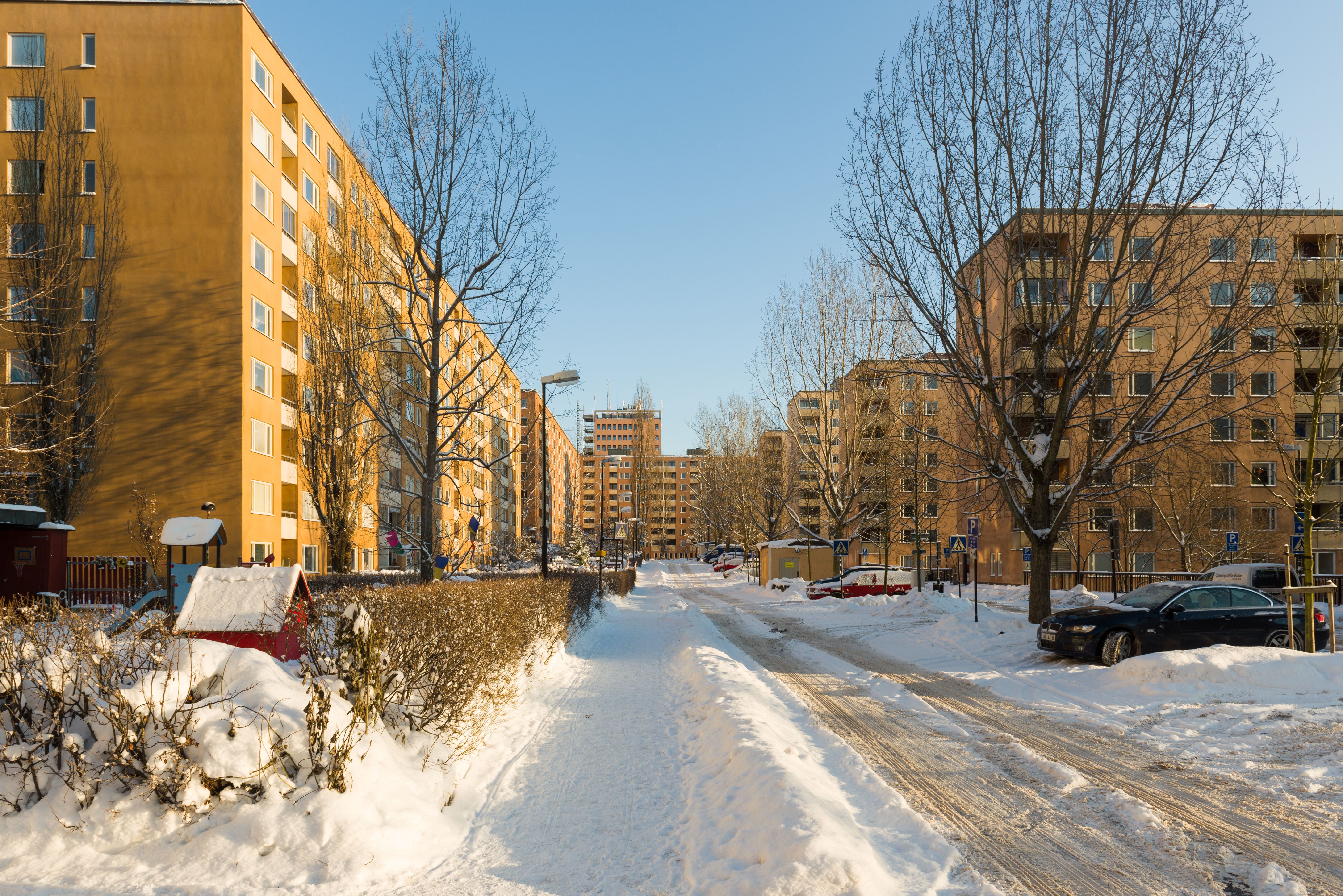 Residential buildings in Drakenbergsområdet, a city block in Södermalm, Stockholm, built in the 1960s.